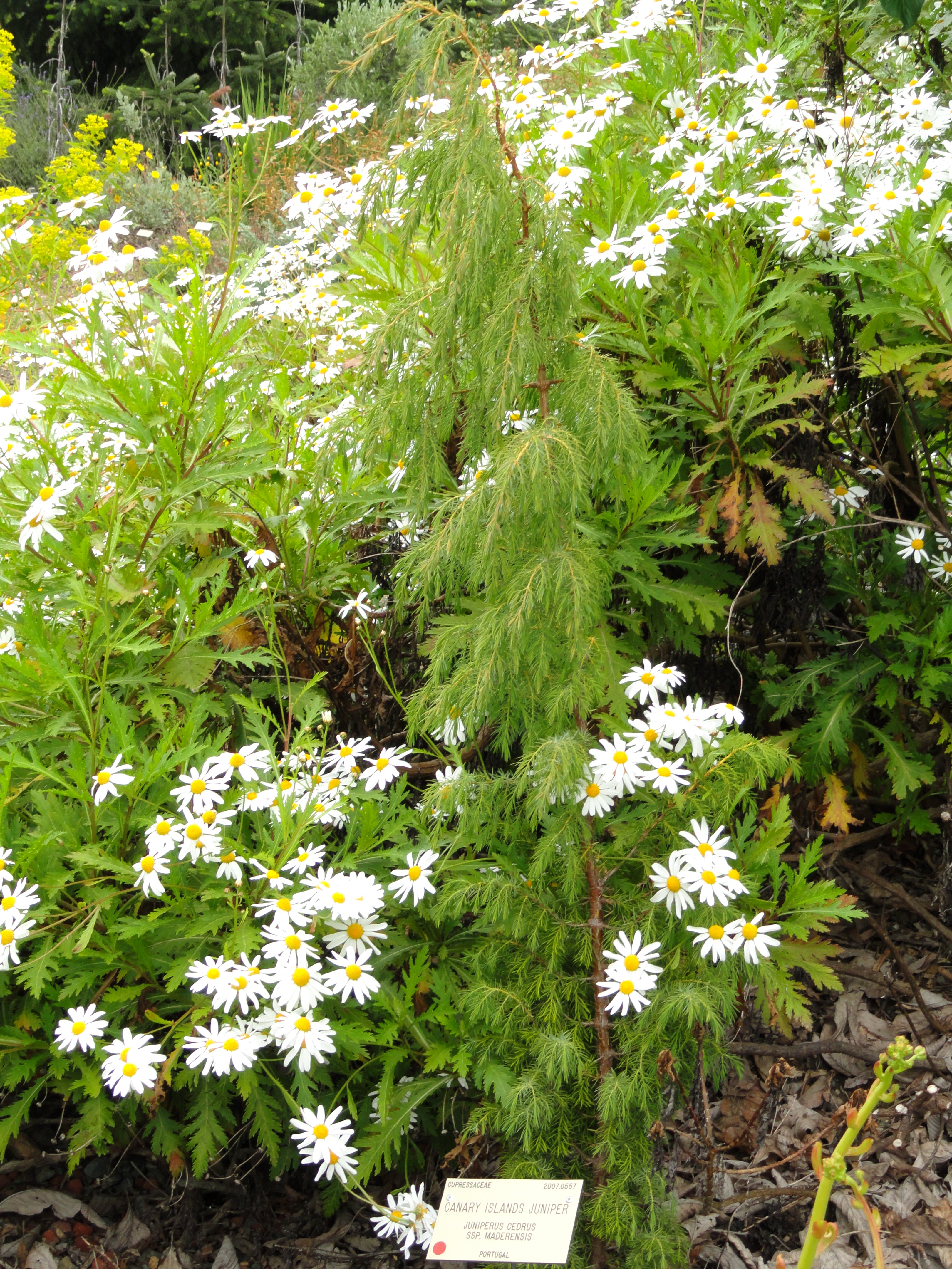 Juniperus cedrus specimen in the University of California Botanical Garden, Berkeley, California, USA.